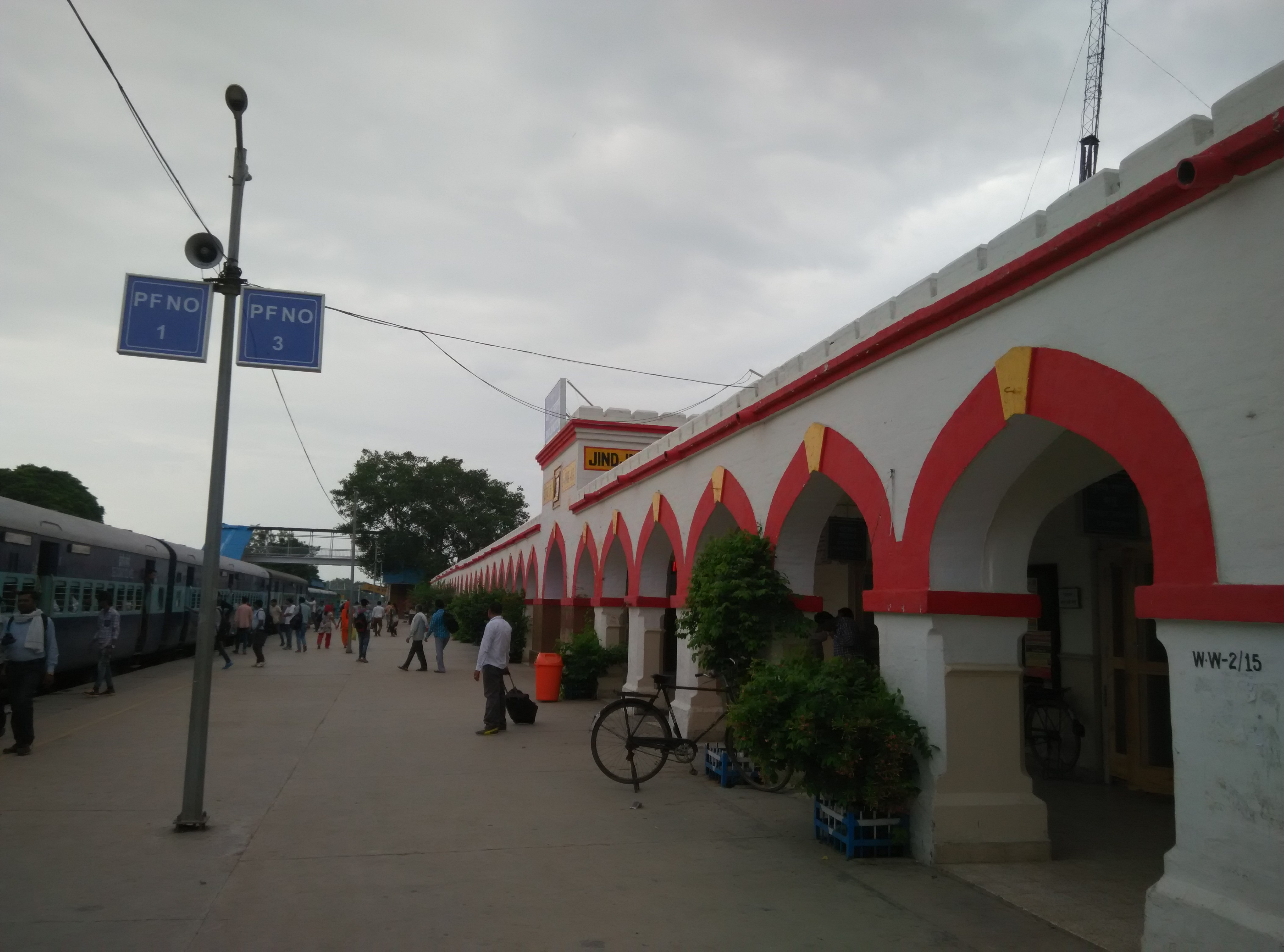 Jind Junction Railway Station, Haryana